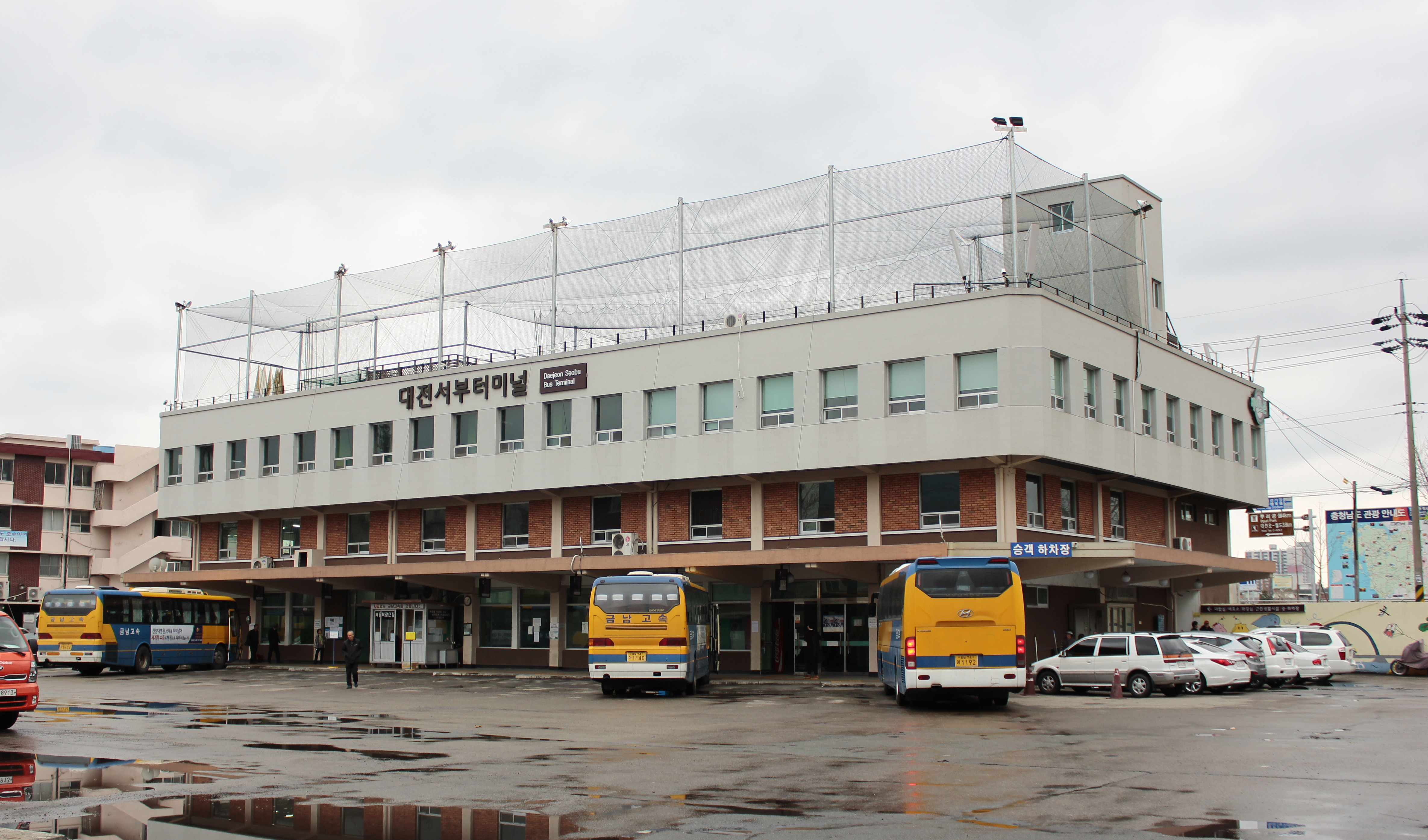 Daejeon Seobu(West) Intercity Bus Terminal east side